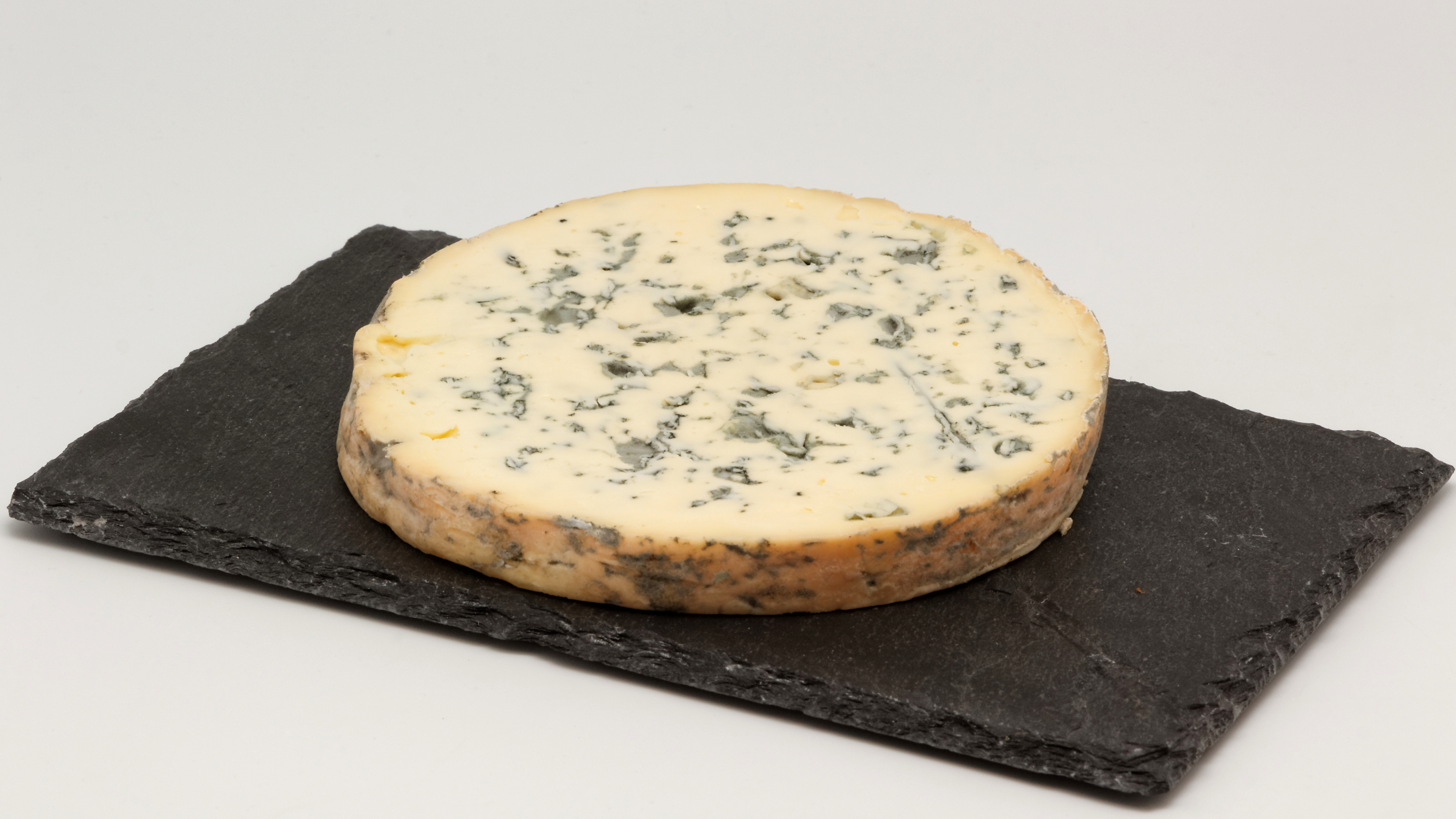 Fourme d'Ambert (cow's milk cheese)